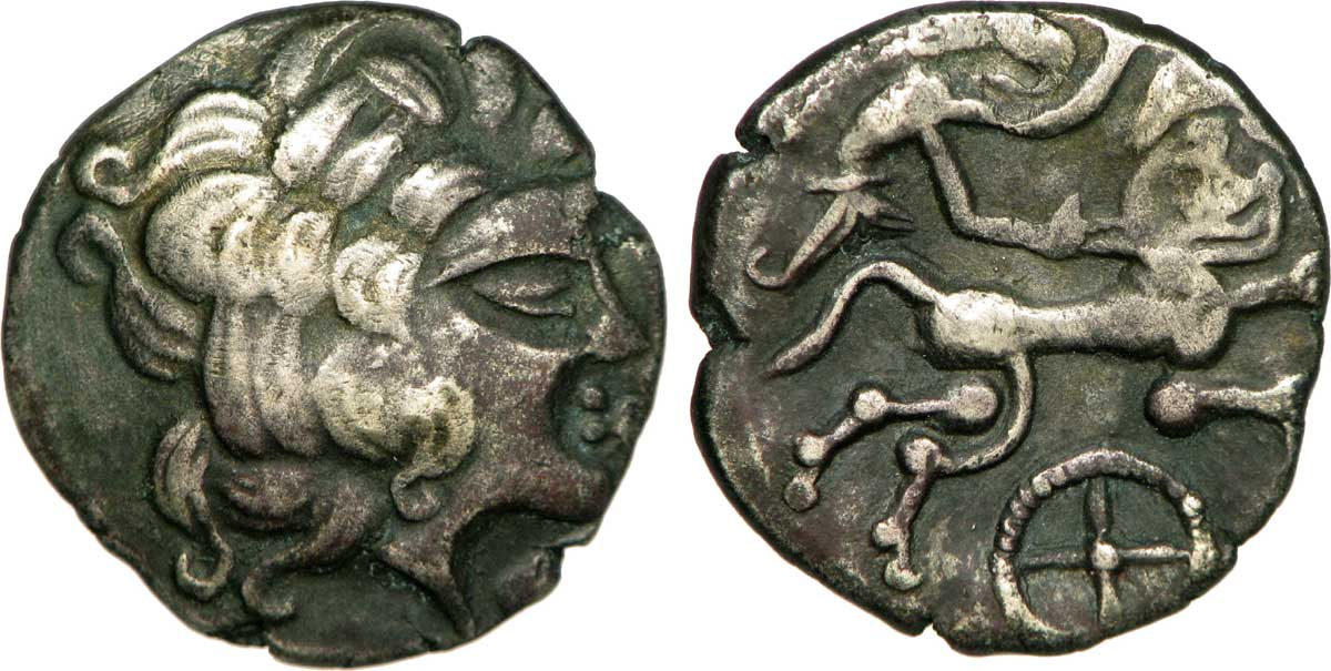 Statère de billon frappé par les Riedones. Date : c. 80-50 AC. Description avers : Tête laurée à droite, la chevelure abondante ; rinceau devant la bouche .